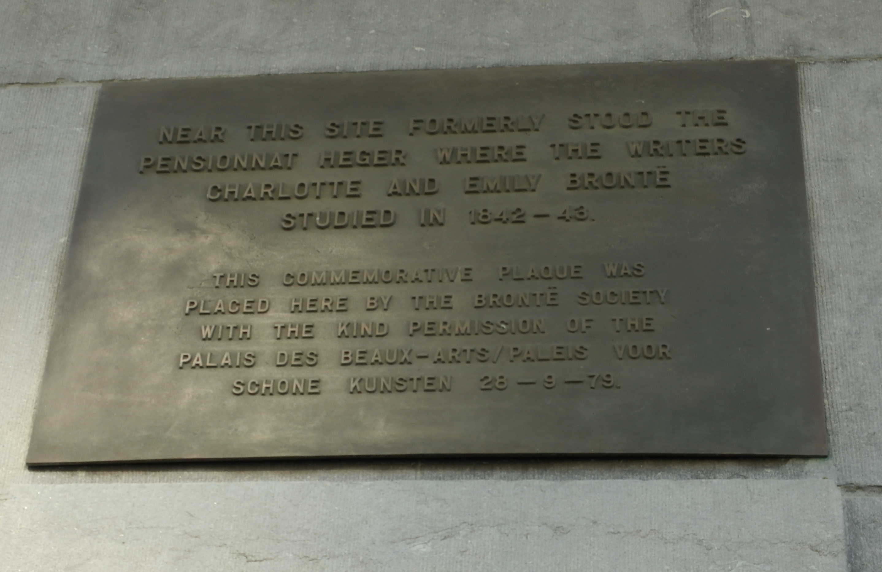 Pensionnat Heger plaque in Brussels (Charlotte & Emily Brontë).